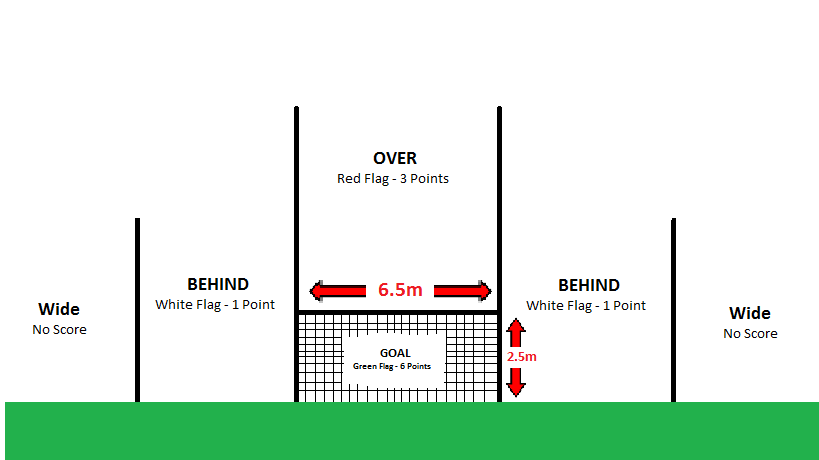 Original diagram of scores available in the International rules football sport